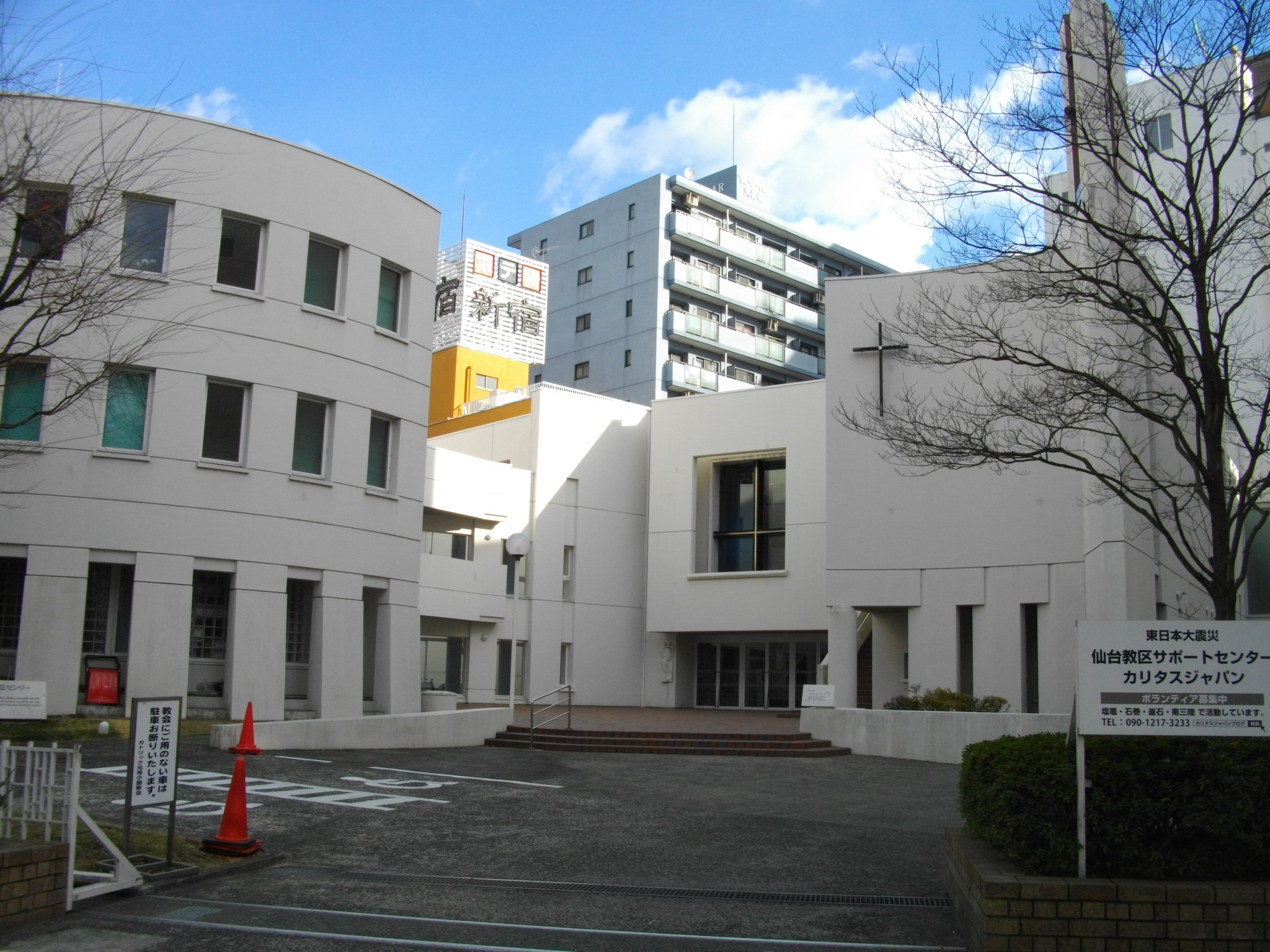 Catholic Mototerakoji Church